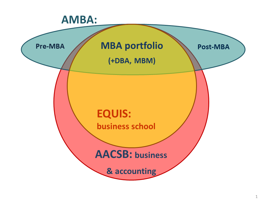 AACSB awards accreditation to the university. EQUIS awards accreditation to the business school. AMBA awards accreditation to the business school's portfolio of MBA programmes (+ DBA & MBM/MSc Intl Business). AMBA also promotes MBA education among applicant students and is a membership club for MBA graduates.